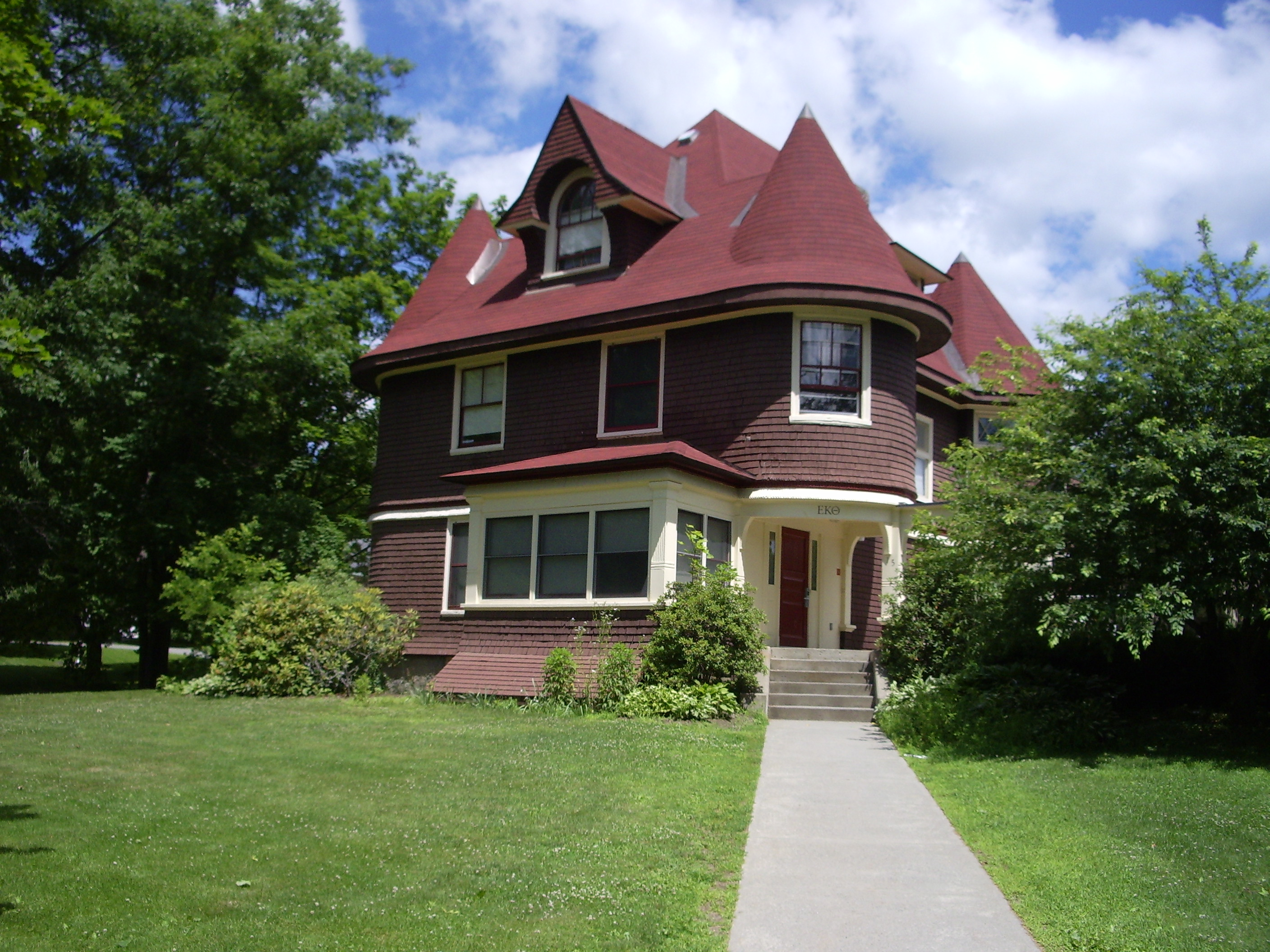 Photograph of Epsilon Kappa Theta at the campus of Dartmouth College in Hanover, New Hampshire.